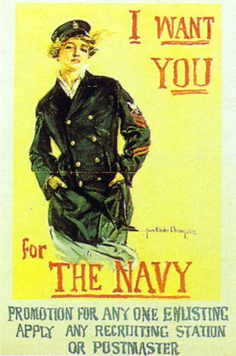 I Want You, US Navy recruiting poster 1917